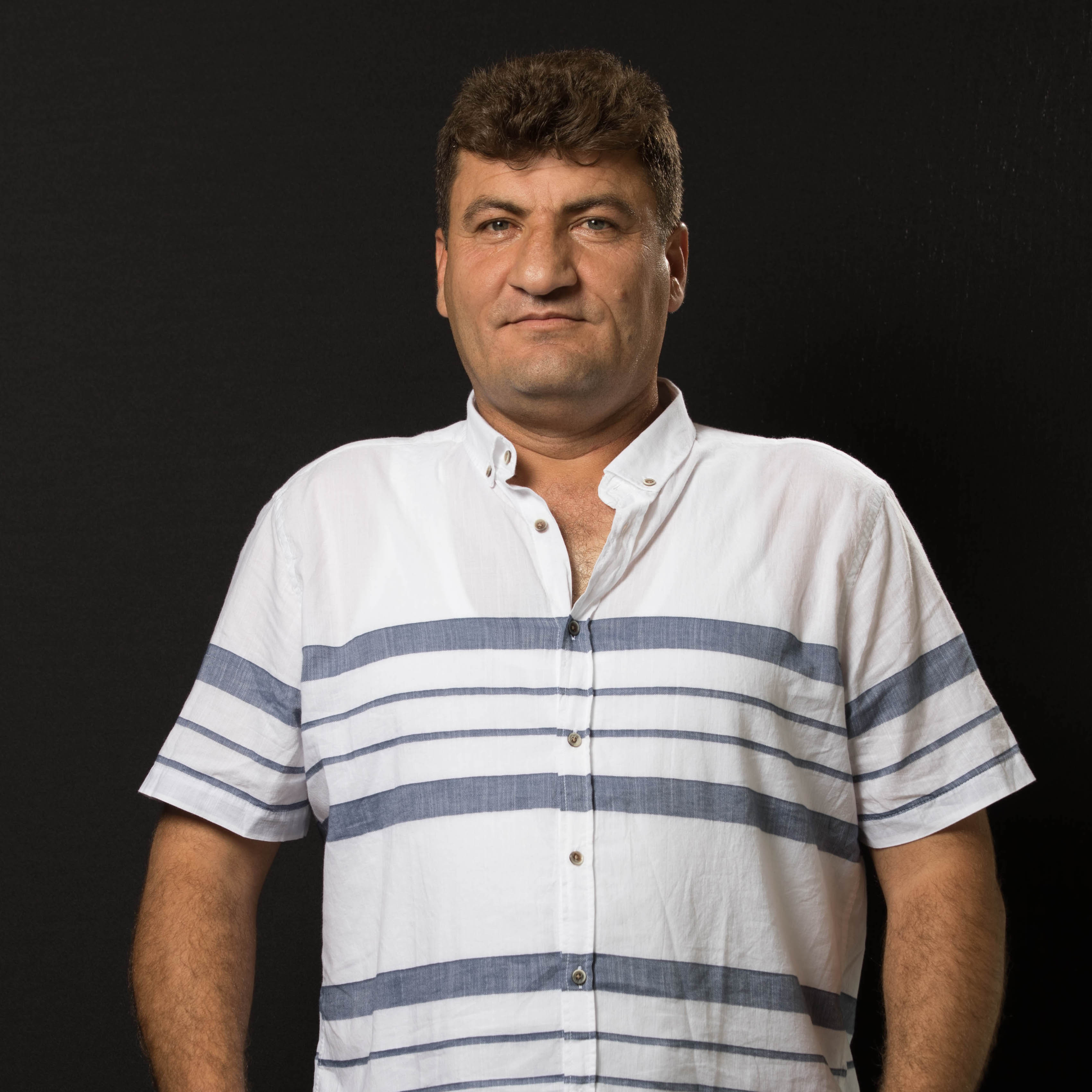 Raed Fares is a Syrian pro-democracy activist, citizen journalist, and civil society organizer, who is well known for his striking news reports from his home in Kafrenbel, Syria, as well as for his protest banners that mock the West’s mediocre response to the Syrian Civil War.